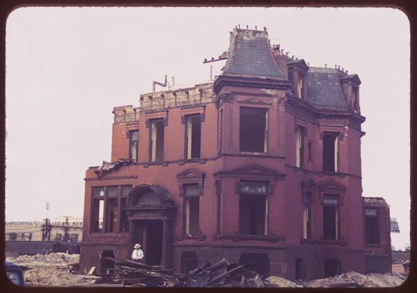 Old Otis home at 1709 Prairie Description: The old Otis house at 1709 Prairie. Creator: Cushman, Charles Weever, 1896-1972